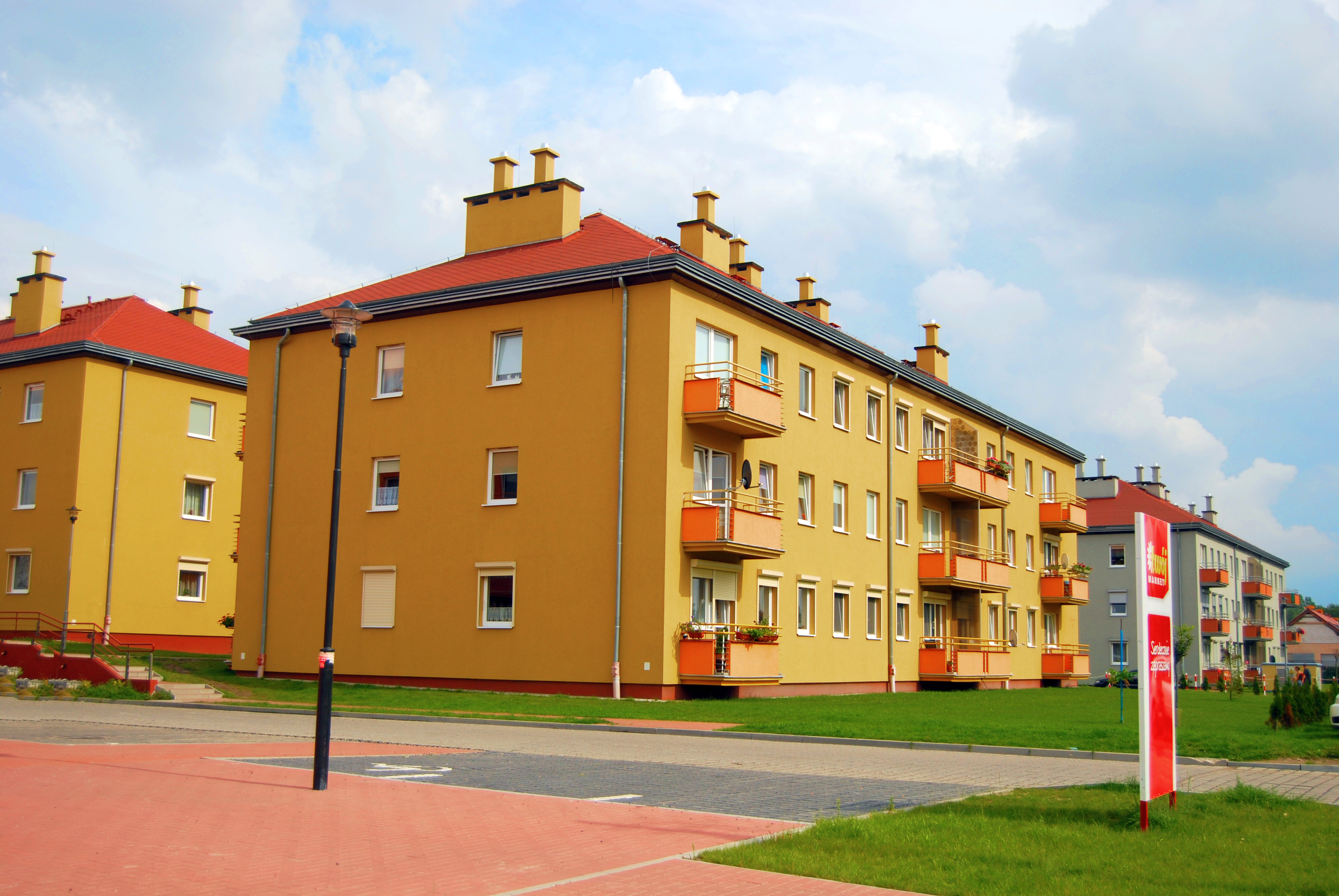 Oś.kawiary